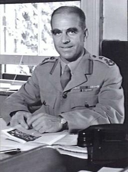 Portrait of Brigadier Henry Wells CBE DSO, who was later to achieve the rank of lieutenant general and become the first Chairman, Chiefs of Staff Commitee; the professional head of the Australian Military.